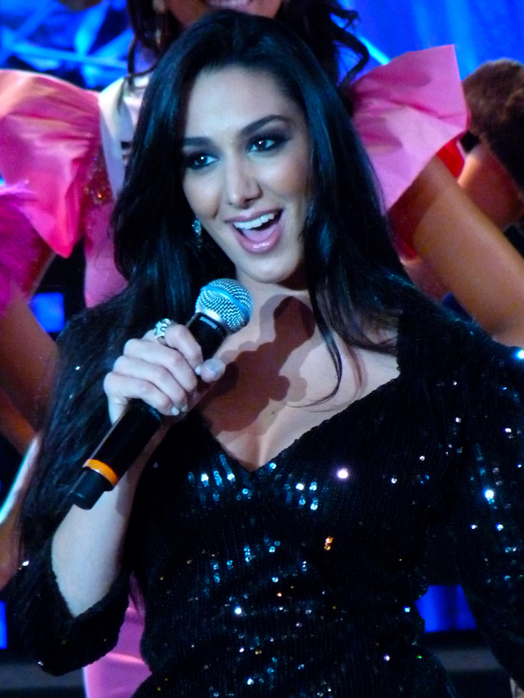 Marina Elali at Miss Brazil in 2010.